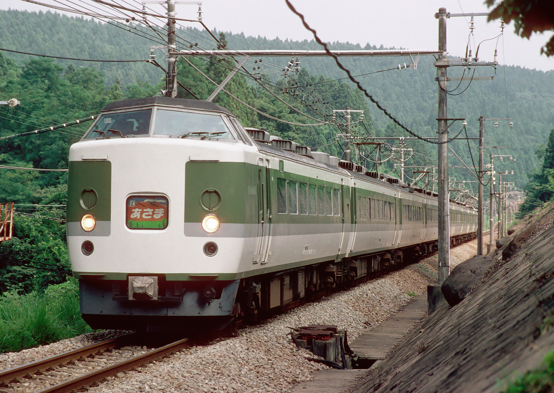 East Japan Railway Company 189 series EMU on an Asama limited express service running between Yokokawa and Karuizawa on the Shin'etsu Main Line.